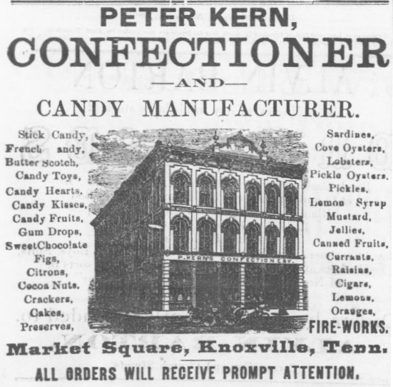 Ad for Peter Kern's candy store, which was once located on Market Square in Knoxville. The building shown is the Market Square Mall building.